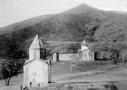 Monastery of Surp Arakelots in the 1900s (from the East), Mush area, nowadays Turkey.